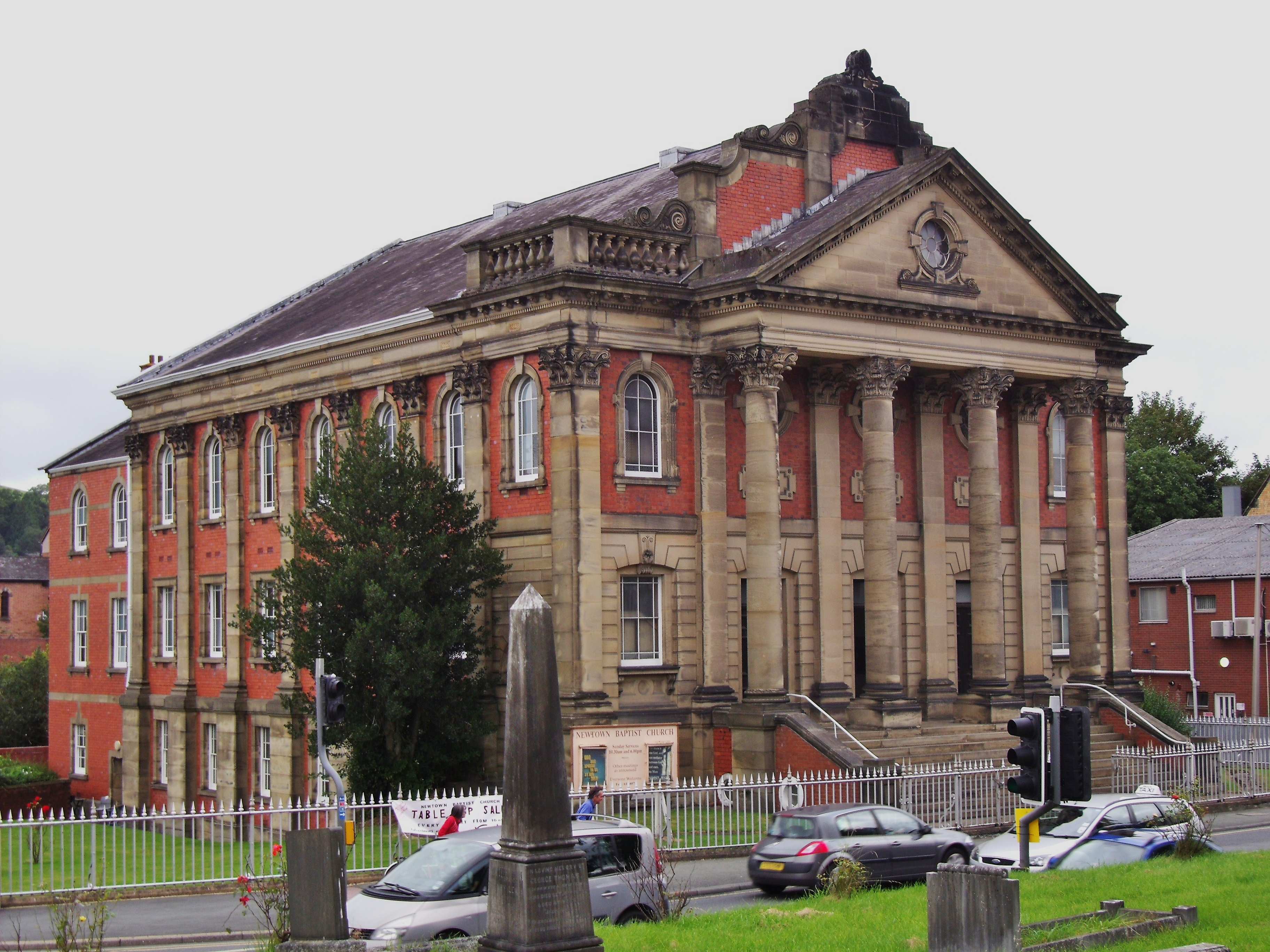 Zion Baptist Tabernacle of 1881 was built by George Morgan of Carmarthen. It is an impressive three storey building. The classical front in brick and freestone has a shaped gable above a Corinthian facade. In front is a portico and pediment. The interior is rich and a raked gallery on iron columns and a fine ironwork front. The basement was the schoolroom. Heated by hot air and lit by gas it was designed to accommodate 1,334 people. Today it survives with little alteration.